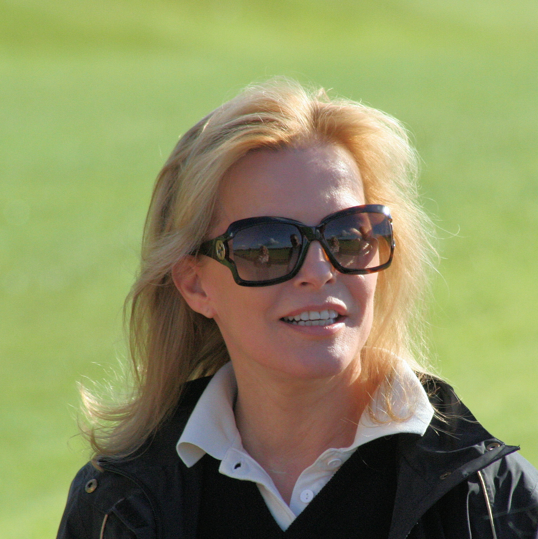 15th July 2007 - Hollywood actress Cheryl Ladd arrives at Royal Dornoch Golf Club to film a promotional video for VisitScotland. My first attempt at being a member of the papparazzi!